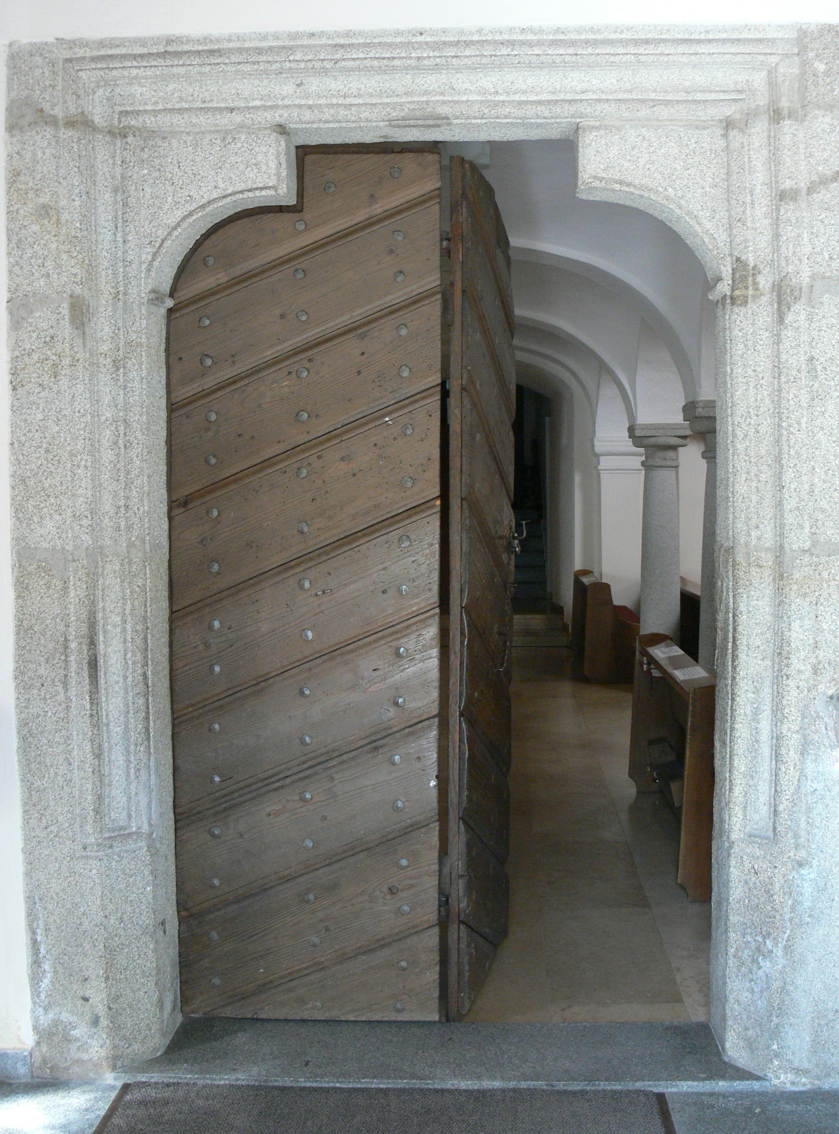 Helfenberg ( Upper Austria ). Saint Erhard parish church: Gothic portal ( 1500 ).